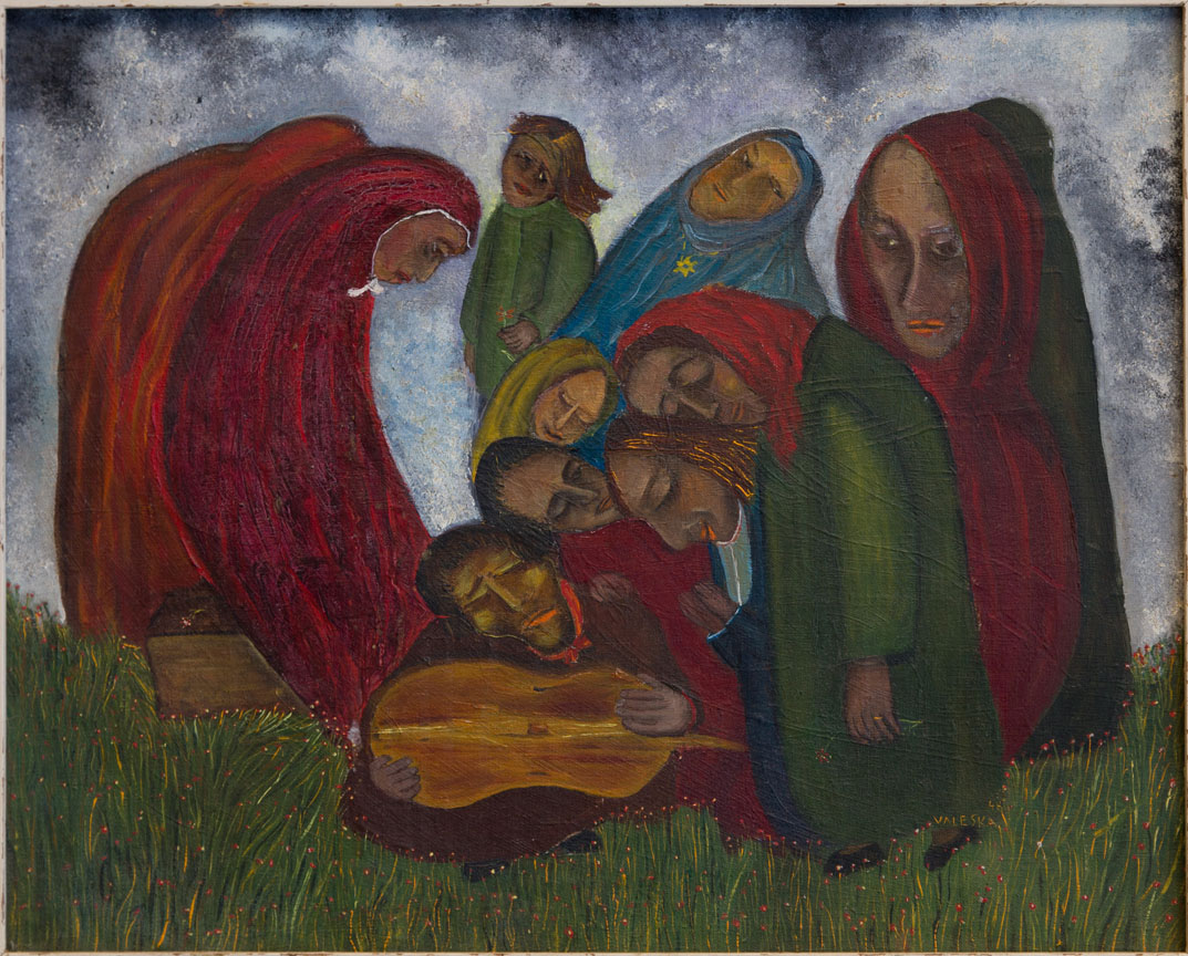 "Mourning" painting by Lette Valeska, 1948.